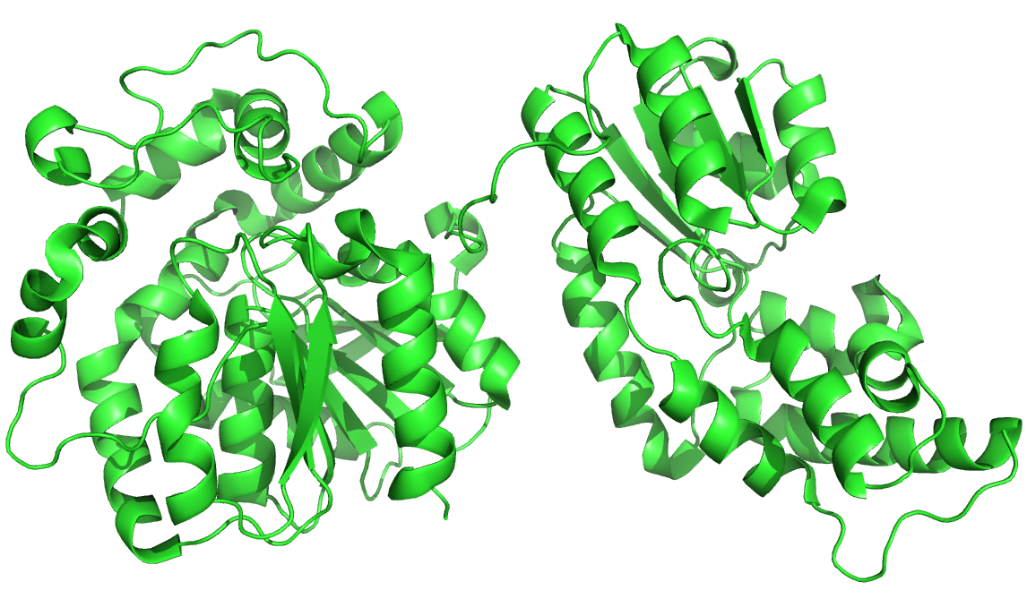 Atomic coordinates of 3KOO (soluble epoxide hydrolase) rendered using PyMOL.